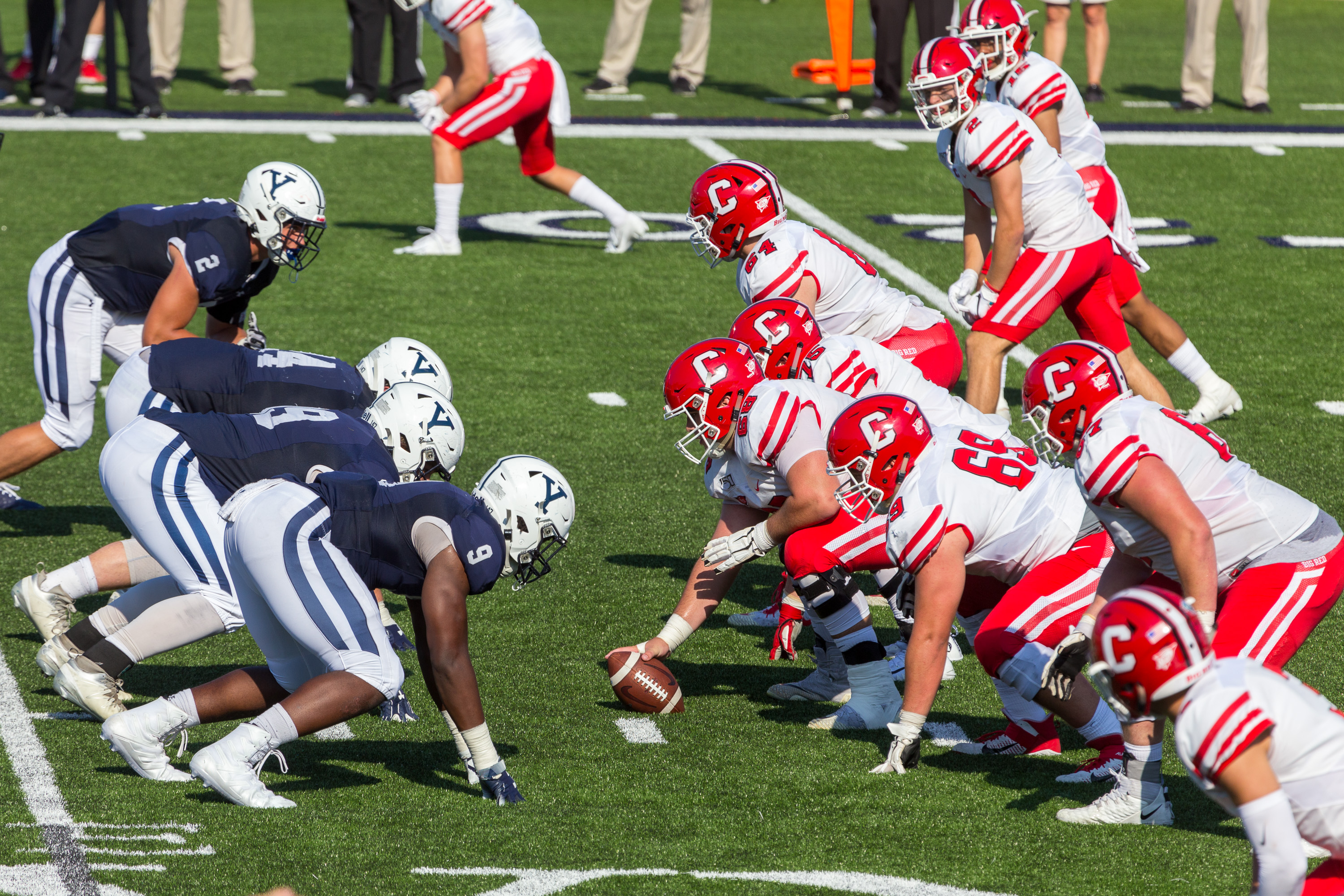 Yale/Cornell Football game at Yale Bowl.